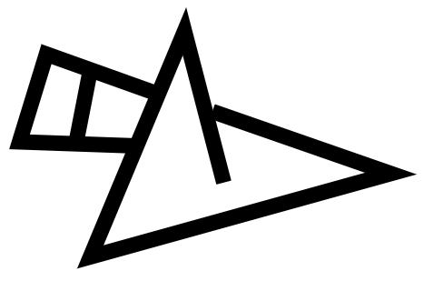 Dilmun (early Sumerian pictograph, horizontalTransliteration: CDLI-Found Texts. .Similar text: CDLI-Found Texts. .)Later syllabic version (circa 2000 BCE): 𒉌𒌇 DIL-MUN